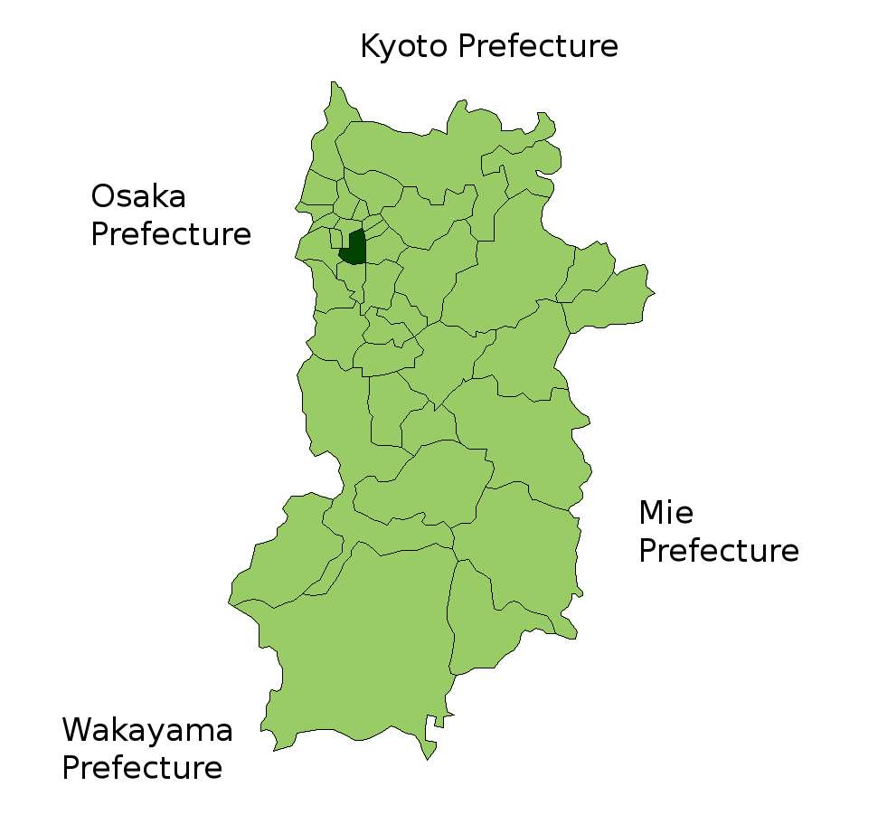 Location Map of Koryo in Nara Prefecture, Japan